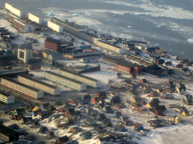 Flying over Nuuk, Greenland